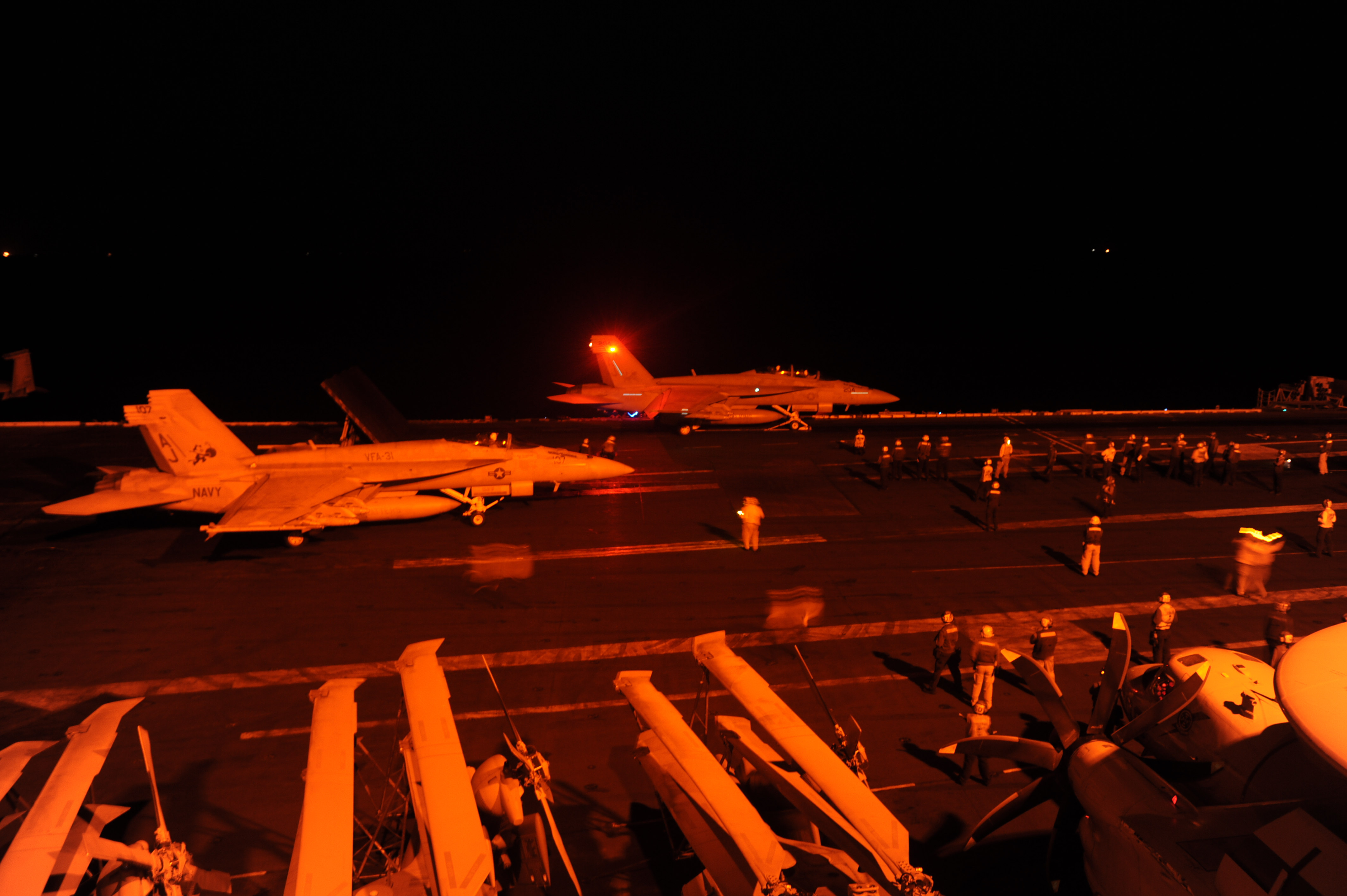 A U.S. Navy Boeing F/A-18E Super Hornet, attached to Strike Fighter Squadron (VFA) 31 "Tomcatters", and an F/A-18F, attached to Strike Fighter Squadron (VFA) 213 "Black Lions", prepare to launch from the flight deck of the aircraft carrier USS George H.W. Bush (CVN-77) in the Arabian Sea to conduct strike missions against Islamic State of Iraq and the Levant (ISIL) targets. George H.W. Bush, with assigned Carrier Air Wing 8 (CVW-8) was supporting maritime security operations and theater security cooperation efforts in the U.S. 5th Fleet area of responsibility.